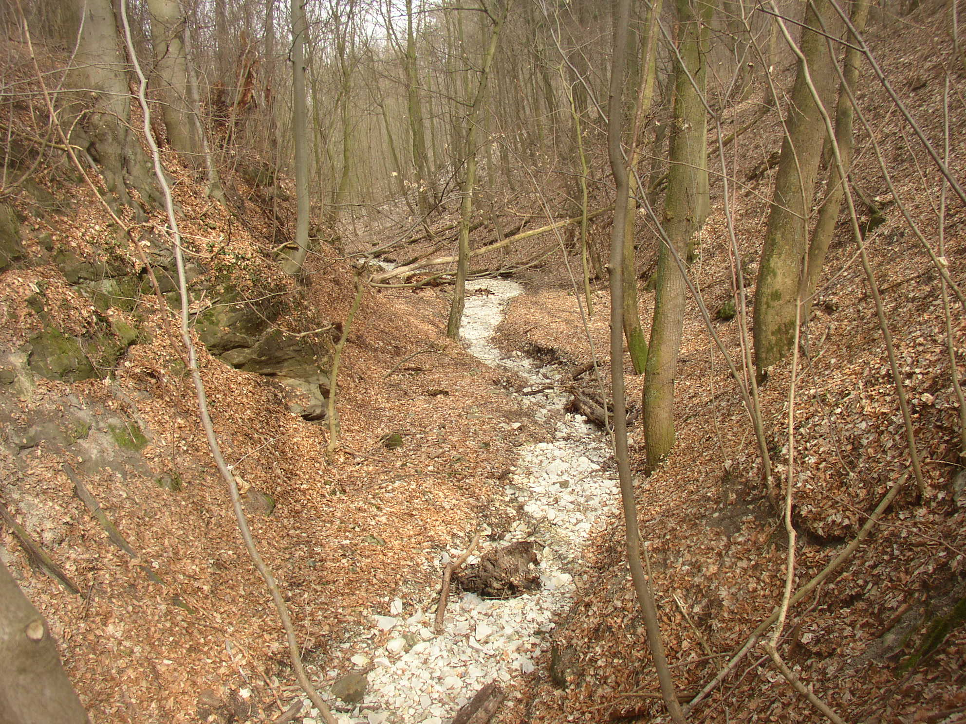 Smečenská rokle natural monument near Smečno, Kladno District, Czech Republic.